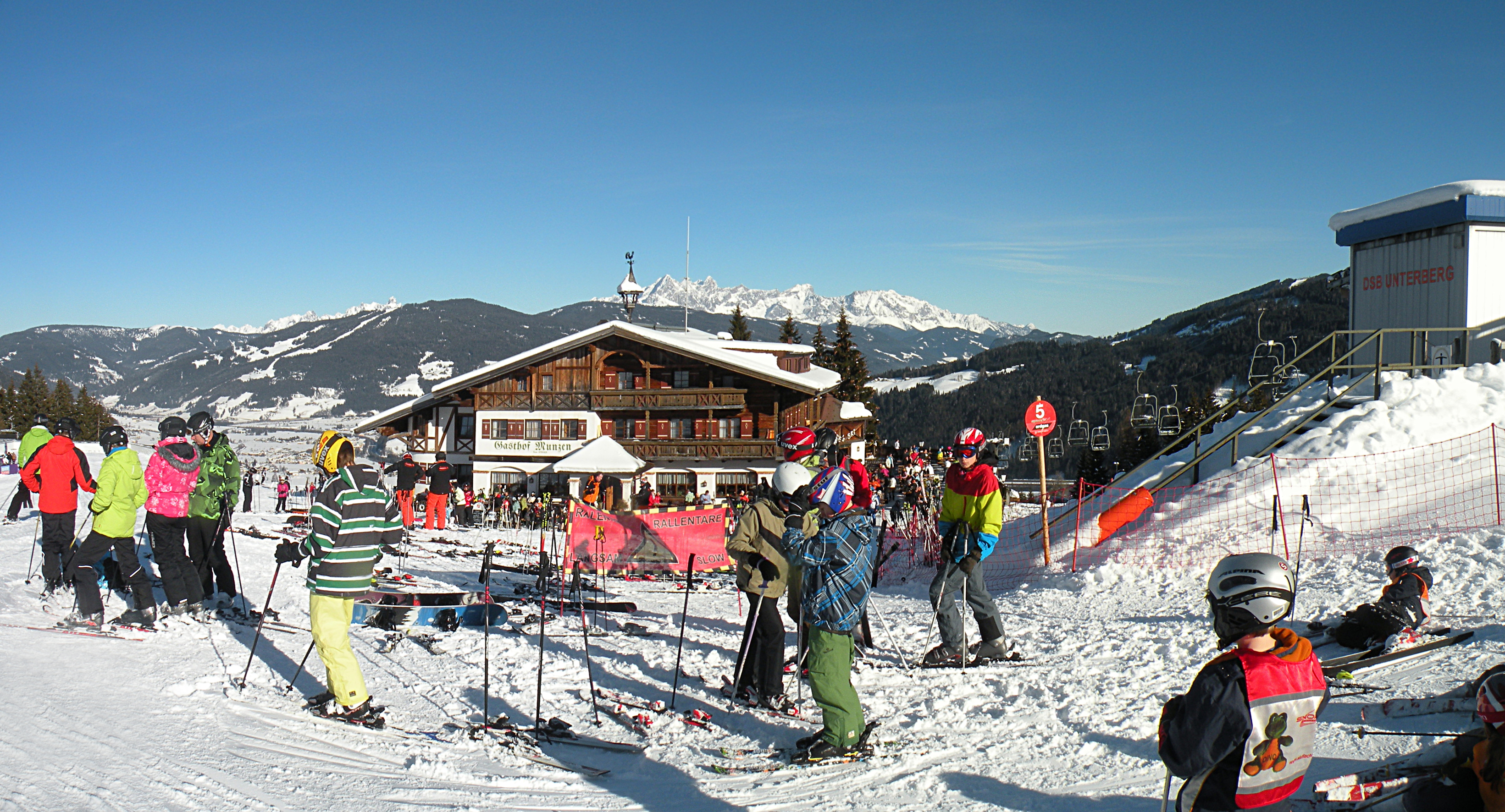 Ski piste in Flachau. View from Munzen inn to the mountain massif of Dachstein.